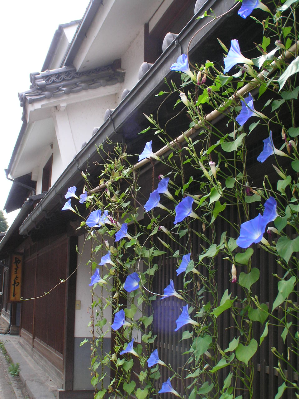 morning glory,アサガオ,朝顔、牽牛花、蕣、学名：Ipomoea tricolor, 海野宿